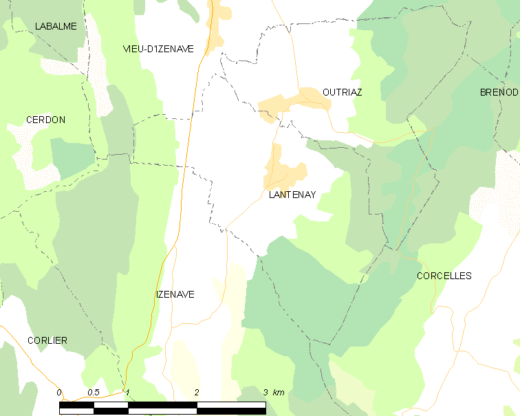 Map of French commune: Lantenay Map commune FR insee code 01206.png